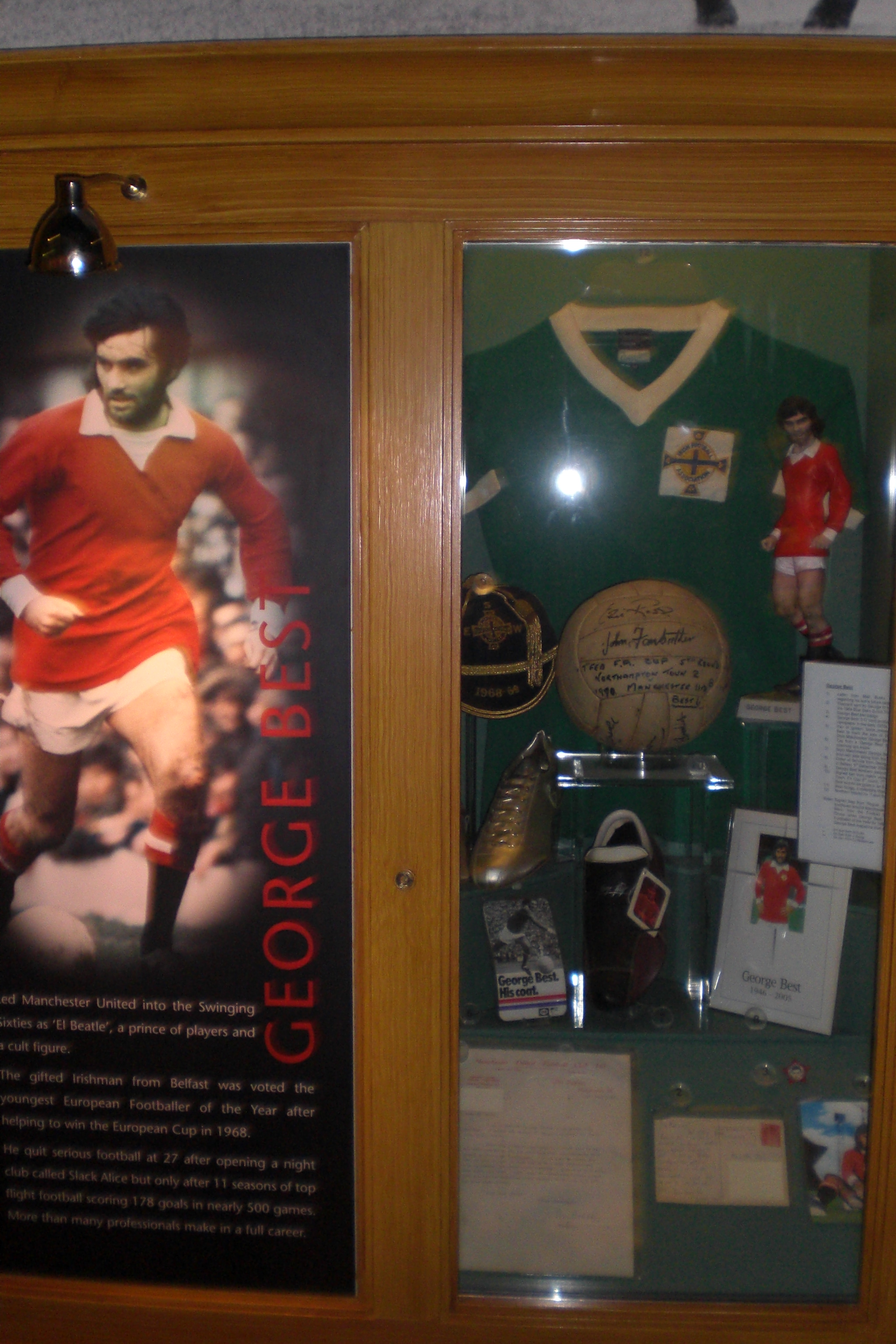 George Best memory monter at United Museum